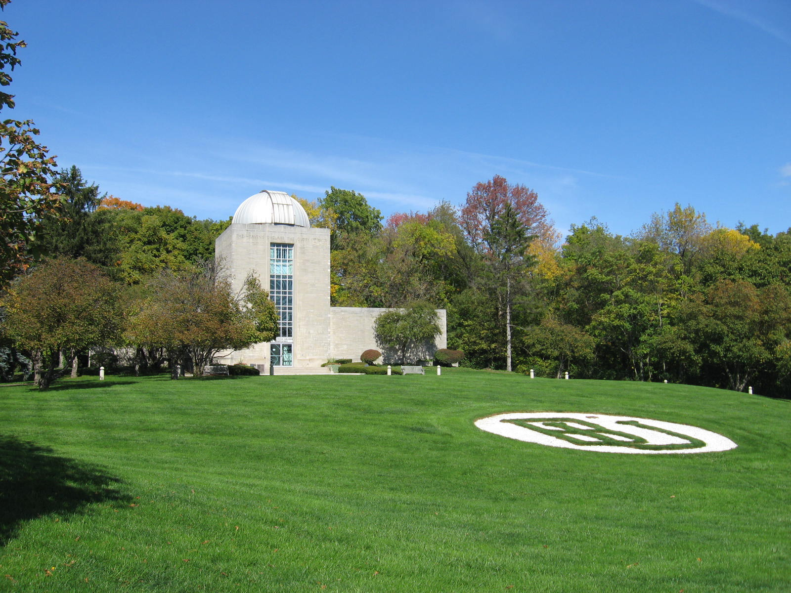 The Holcomb Observatory at Butler University